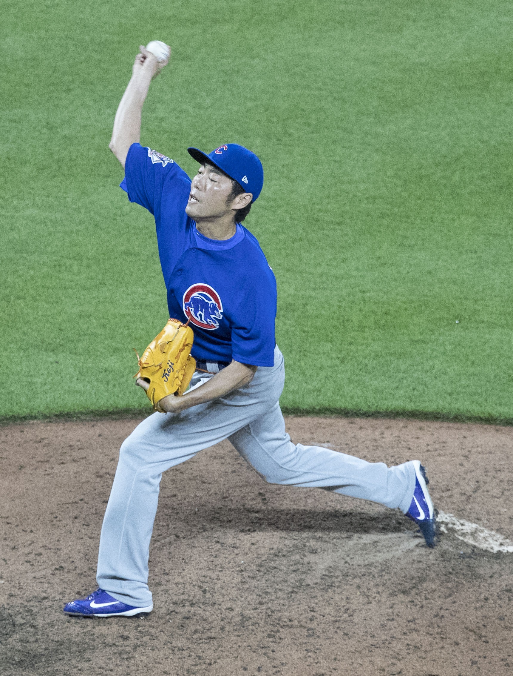 Cubs at Orioles 7/14/17